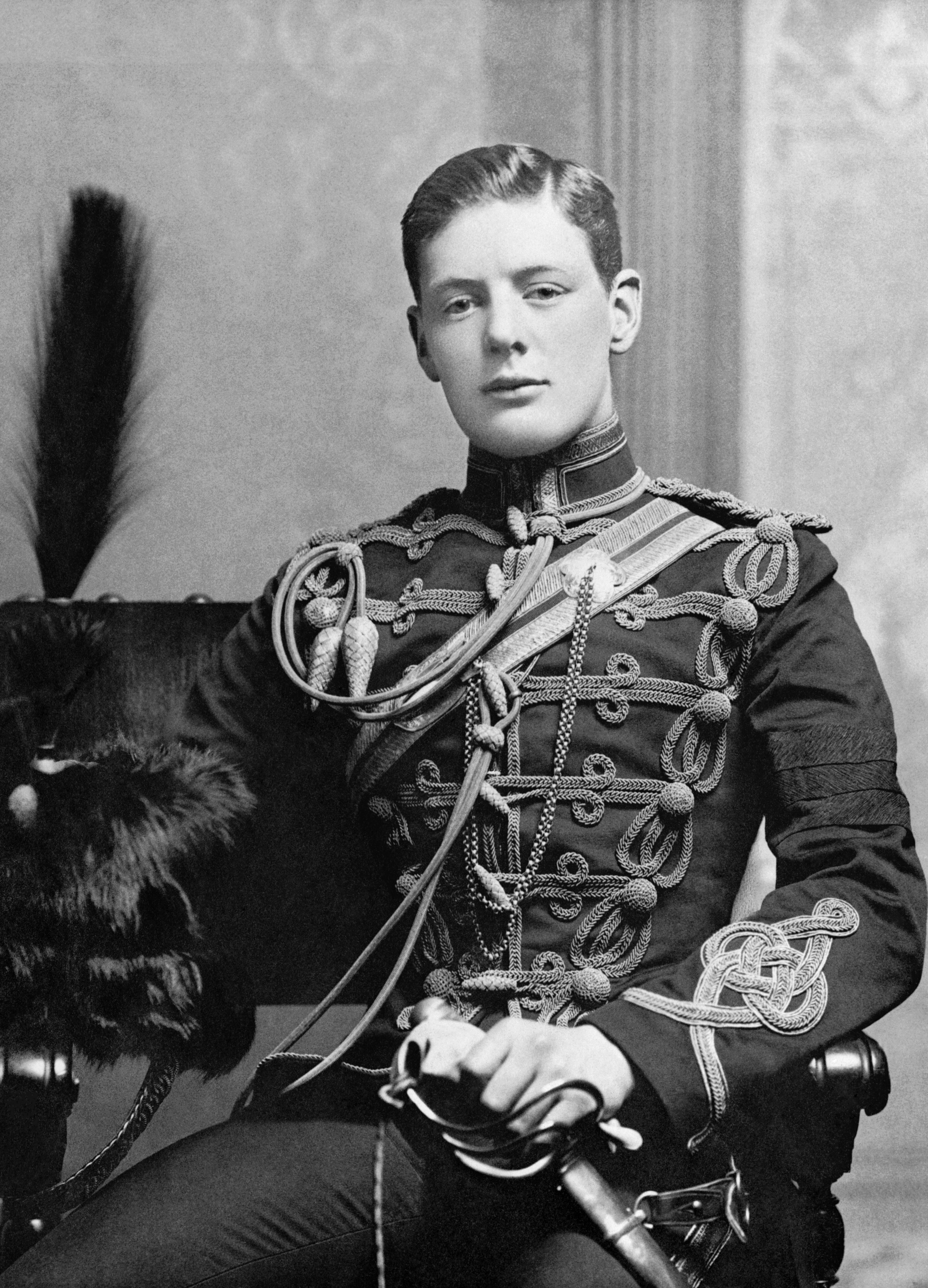 Winston Churchill 1874 - 1965 2nd Lieutenant Winston Churchill of the 4th Queen's Own Hussars in 1895.